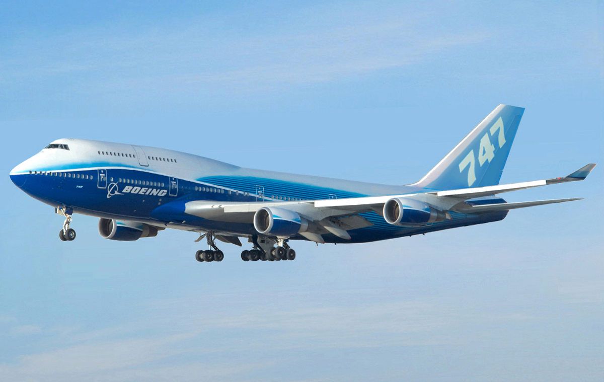 China Airlines B747-400 B-18210